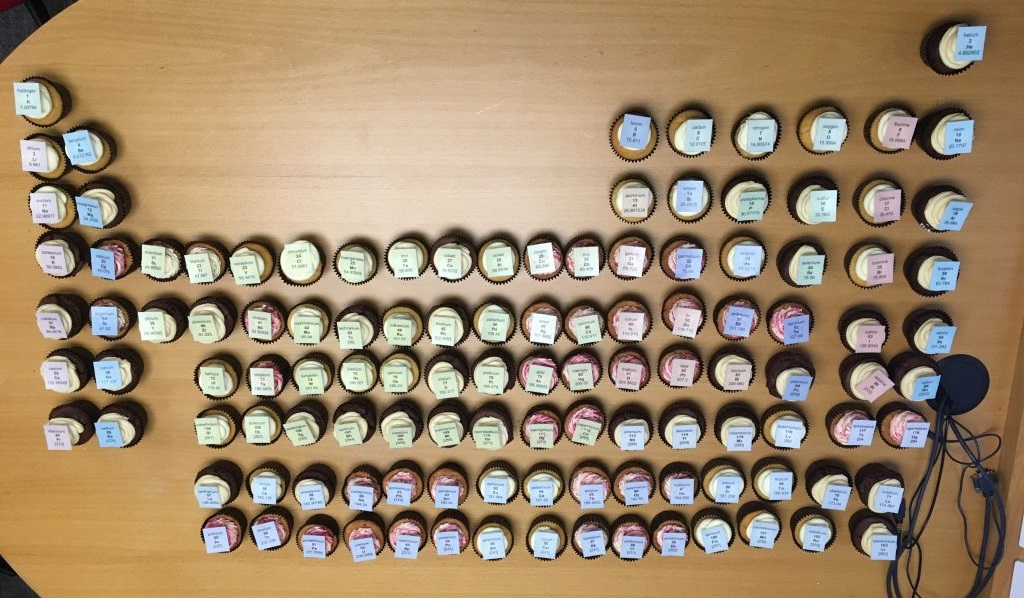 On Tuesday 10th October 2017, the University of Edinburgh's Information Services team ran a Wikipedia edit-a-thon to celebrate Ada Lovelace Day 2017; an international celebration day of the achievements of women in science, technology, engineering and maths (STEM). There was a range of guest speakers in the morning followed by fun technology activities. Thereafter the afternoon's editathon focused on improving the quality of articles related to Women in STEM where the 19 signatories to the petition to the Chemical Society in 1904 were researched and published on Wikipedia.